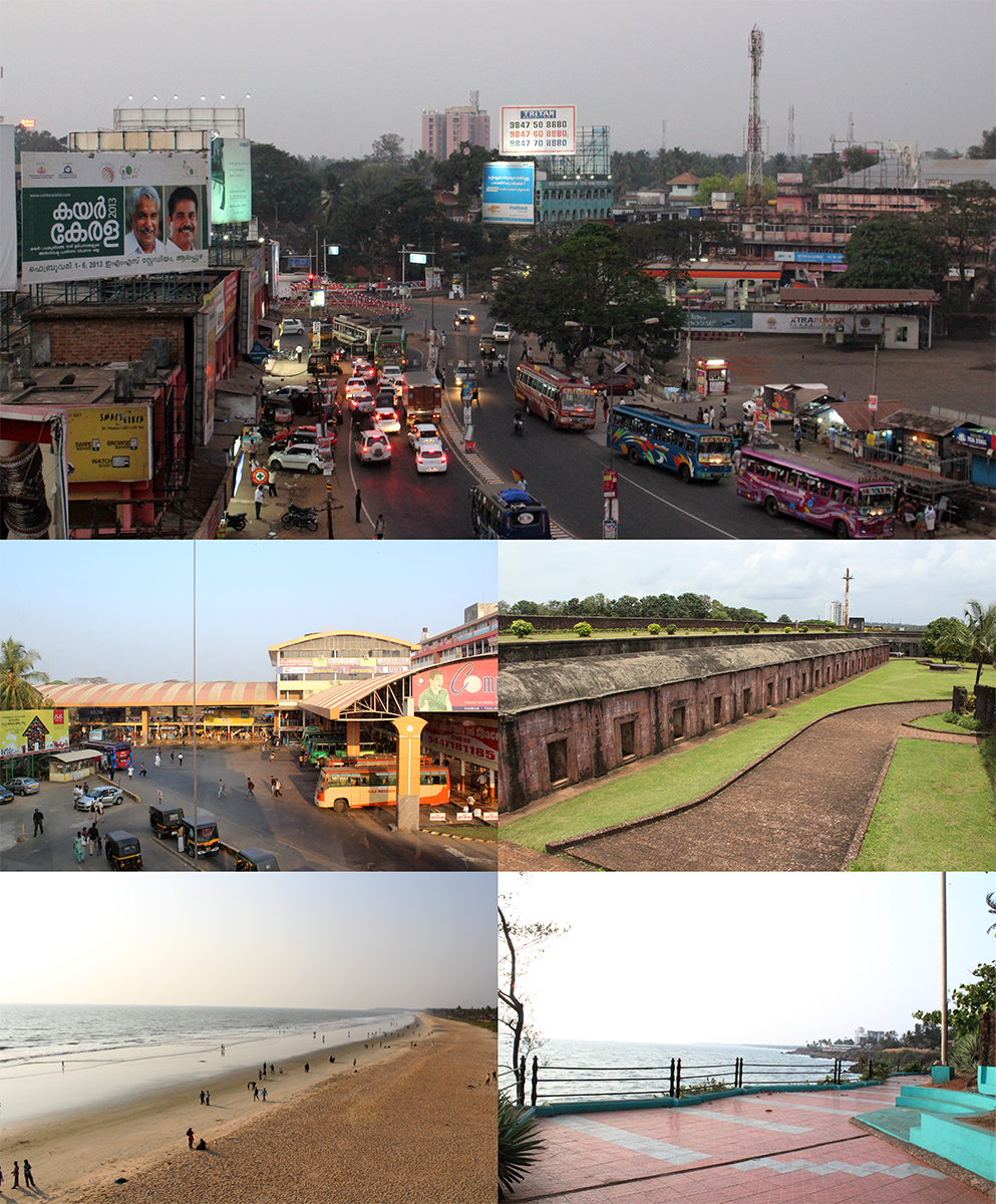 For Kannur's Wiki page